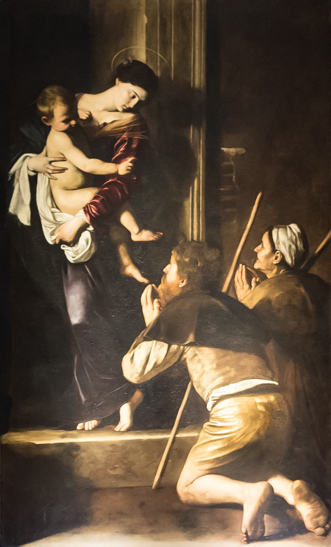 Sant Agostino (Rome); The Madonna of the pilgrims; Caravaggio